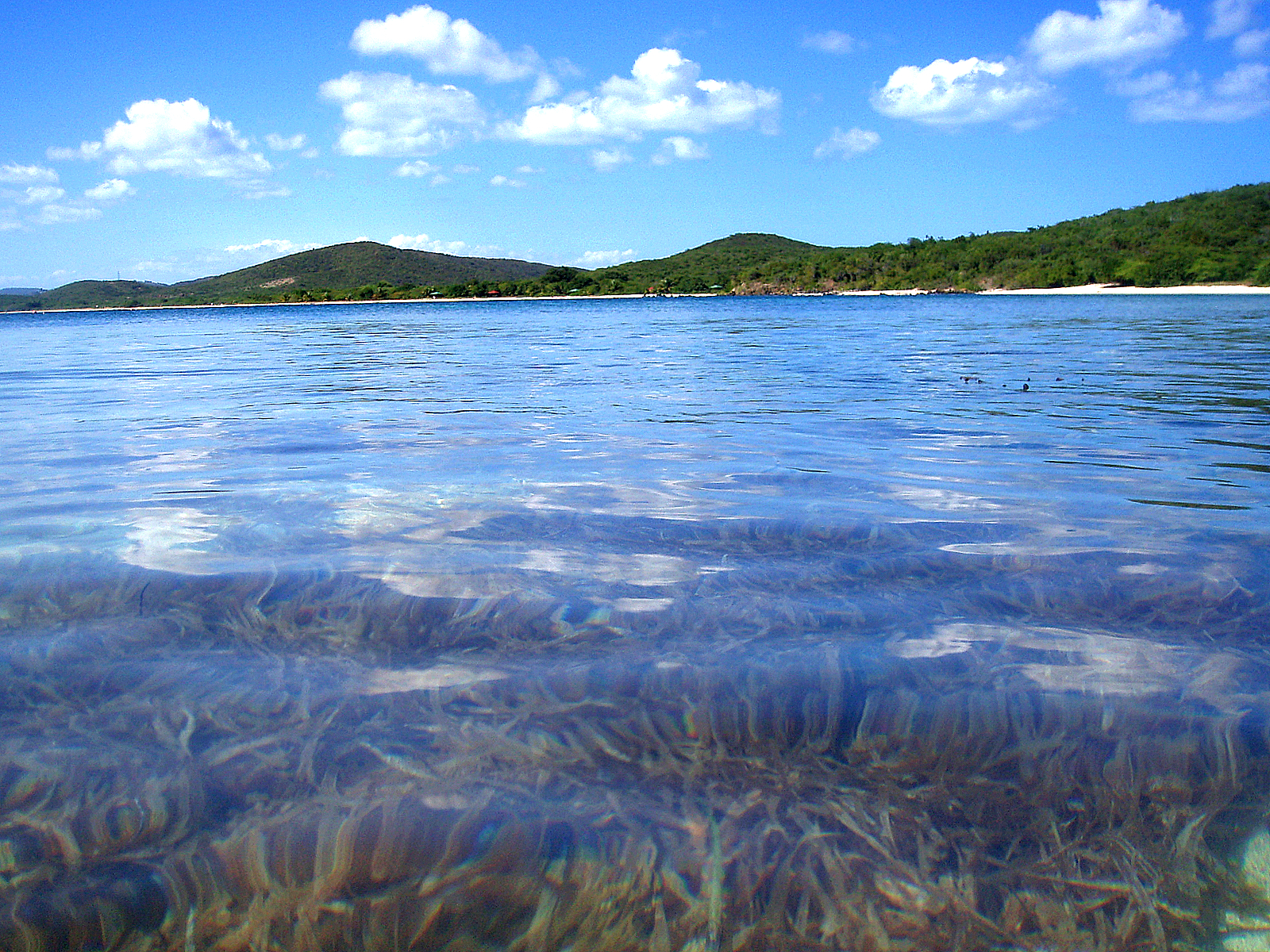 my attempt at a "three worlds" type shot, from the western tip of Blue Beach. The snorkeling along the edge of this seagrass forest was terrific; lots of spiny urchins and little fish - and some pretty extensive coral formations further out.